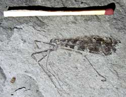 Scorpionfly (Cimbrophlebia bittaciformis): Early Eocene fossil from the Fur Formation on Fur (island), Denmark.